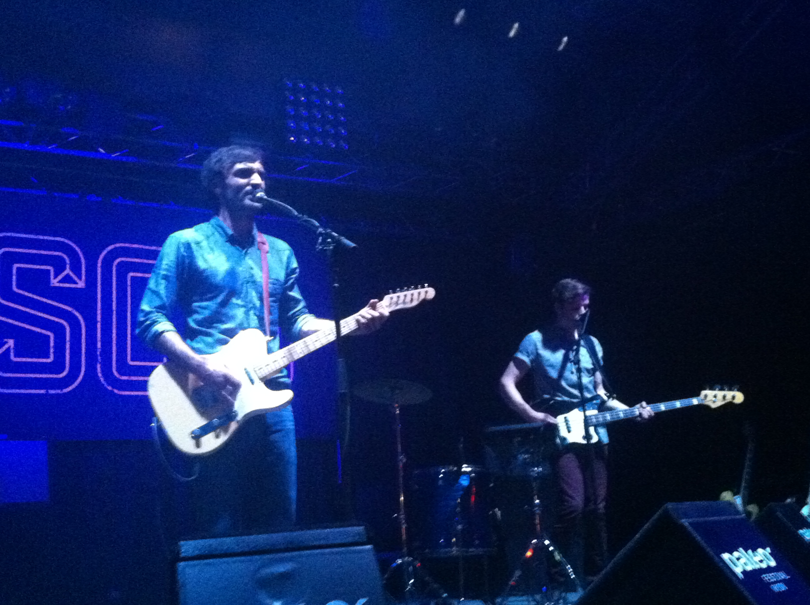 French singer Talisco at the Paleo festival in Switzerland, 2014